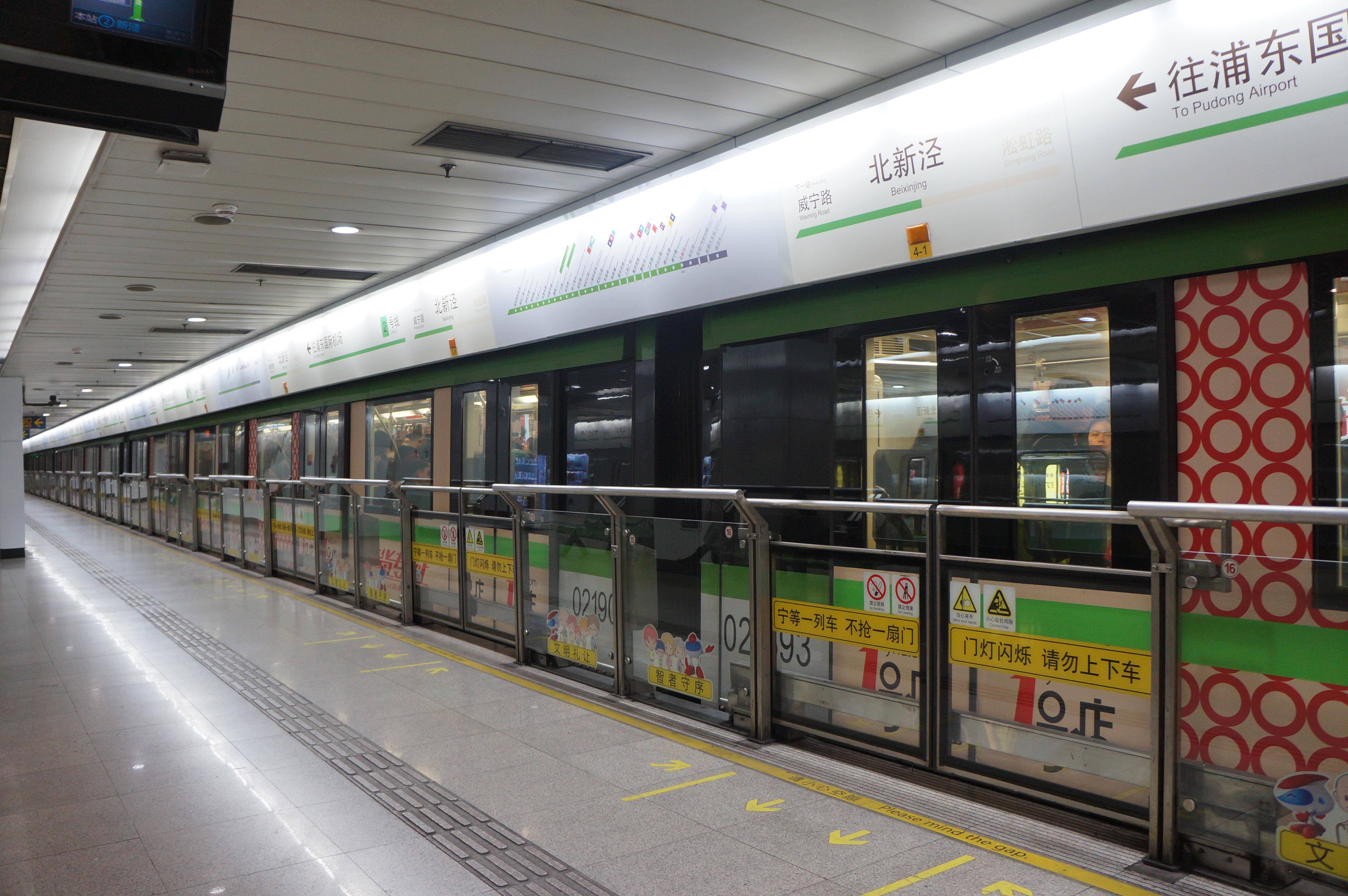 201701 AC08 with yhd adv at Beixinjing Station